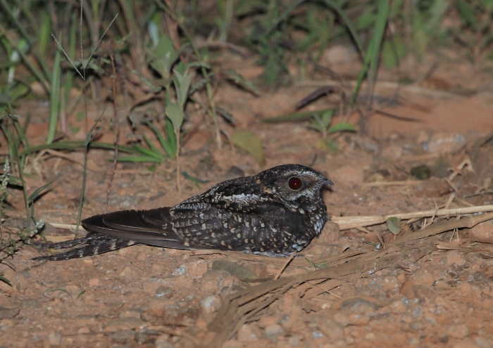 Long-trained Nightjar (female) at Tremembé - SP - Brazil